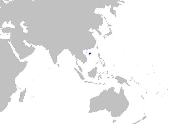 Distribution map for Isistius labialis